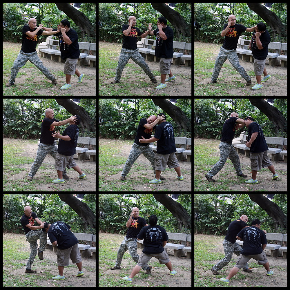 Guro Daniel Sullivan demonstrating panantuakan Filipino dirty boxing techniques with Guro Alex Ercia in Makati City, Philippines.